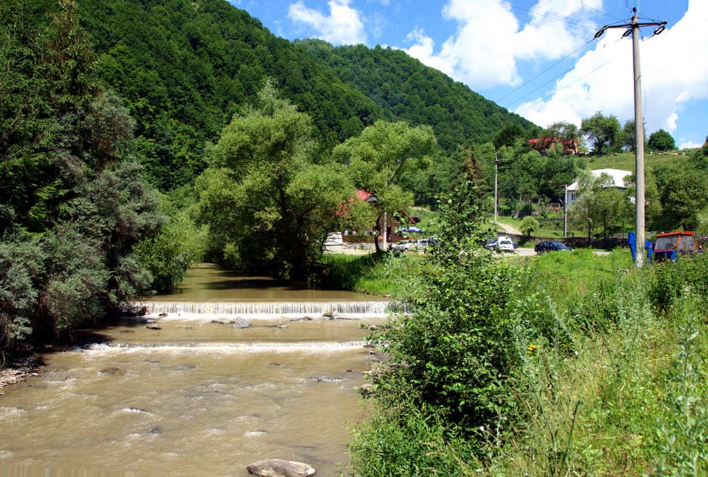 Fiad, Bistriţa-Năsăud and River Sălăuţa